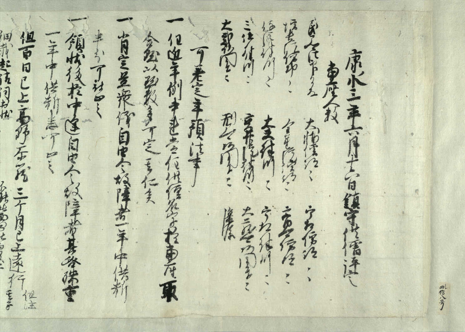 "Toji-Hyakugo-Monjo", Box-"Re" No.41, written in 1344, owned by Kyoto Prefectural Library and Archives